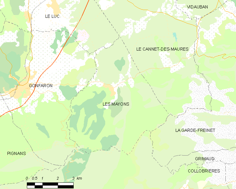 Map of French municipality Les Mayons